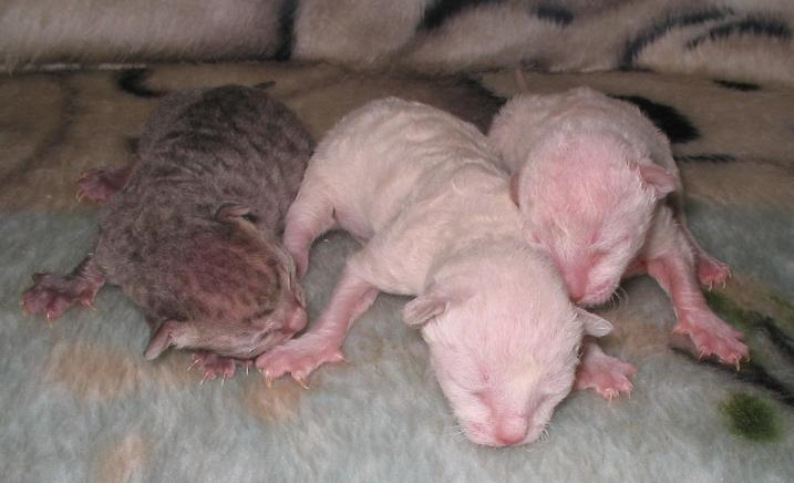 Day old Cornish Rex kittens